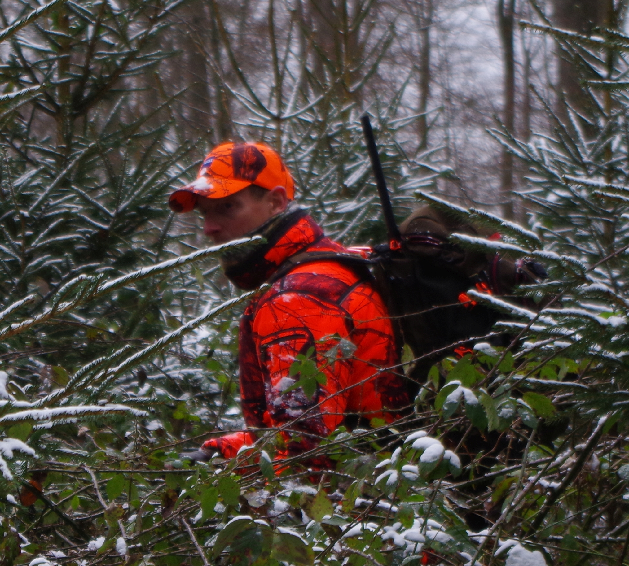 Paul Childerley on the way to his assigned shooting stand during a driven hunt on the Solms-Laubach forest estate (Forstbetrieb Solms-Laubach) near Laubach Castle in Germany.